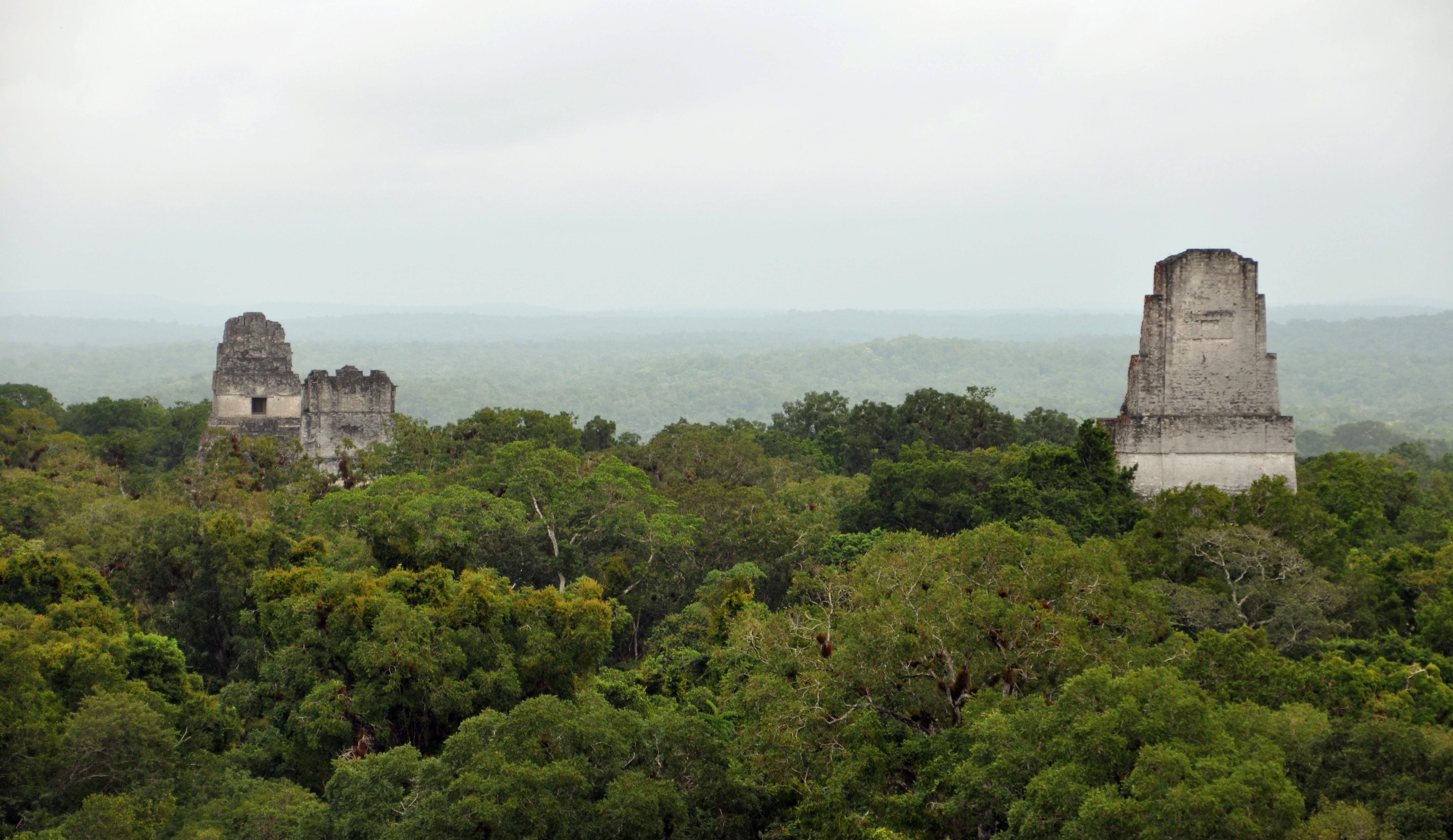 Tikal Mayan Ruins Temples 1, 2, 3 and 5 Guatemala